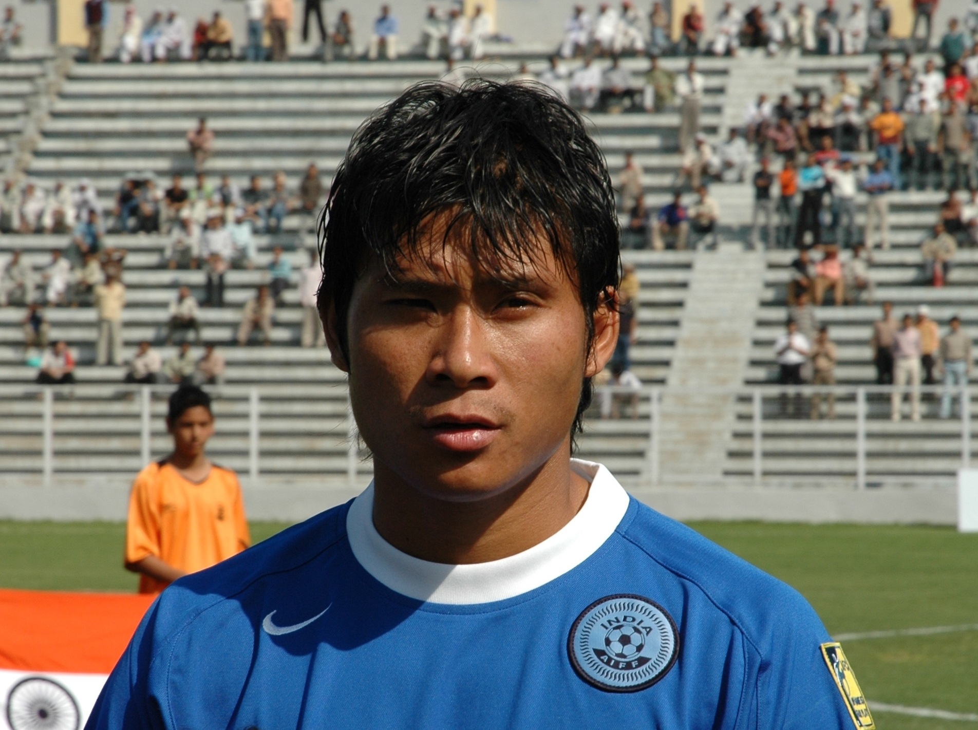 Surkumar During AFC Asian Cup 2007 Qualifiers